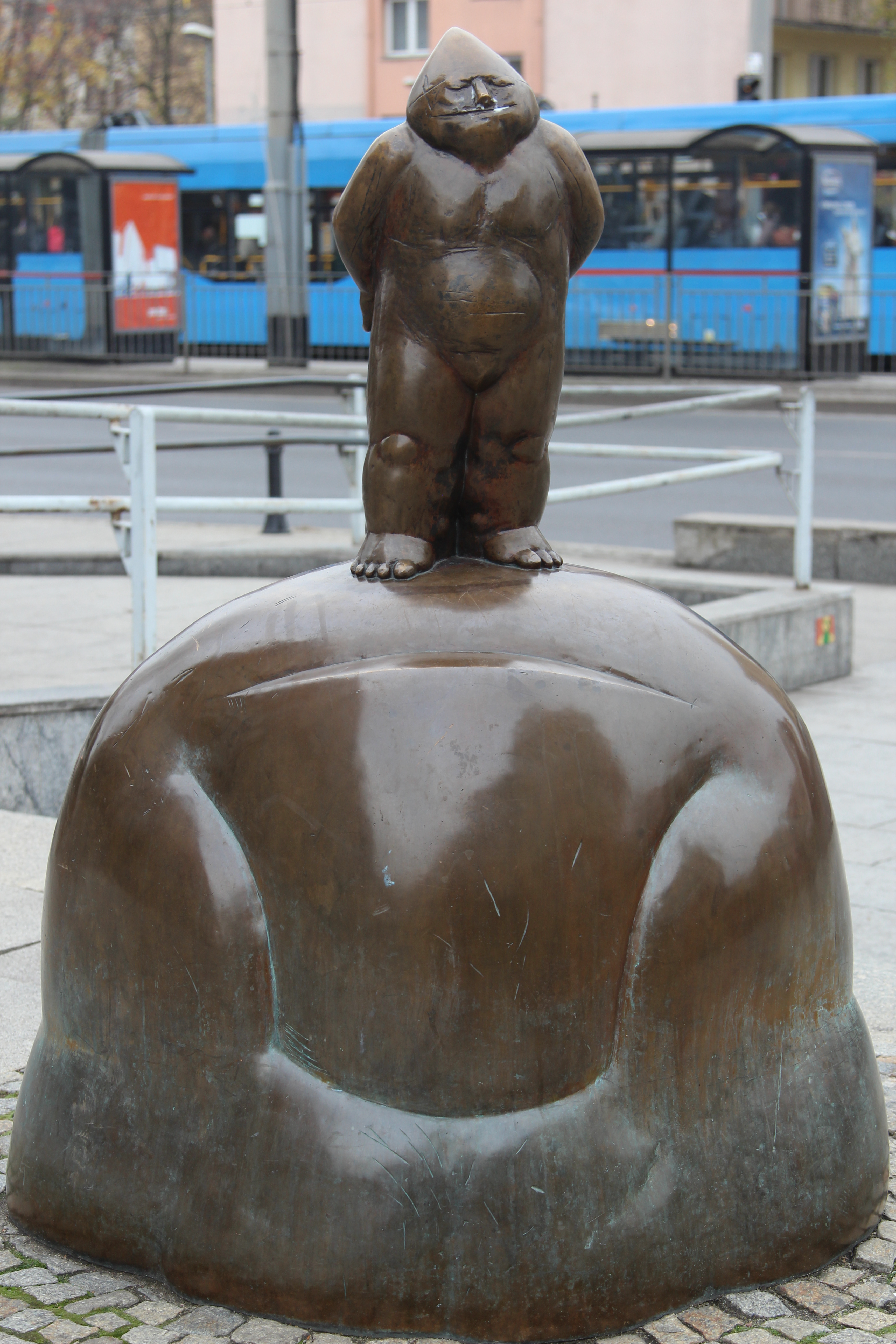 Papa Dwarf (Papa Krasnal) dwarf from Świdnicka.